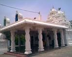 this the photo of the great temple of our village